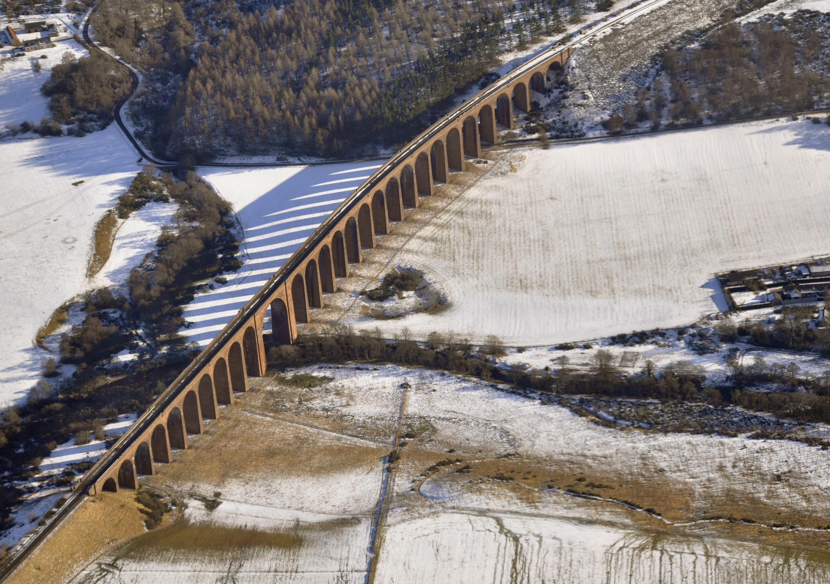 An aerial photo of the Culloden Viaduct (also known as Nairn viaduct) in the Highland council area, Scotland. This double-track viaduct is the longest (1800ft (549m)) masonry railway viaduct in Scotland. It was opened in 1898.